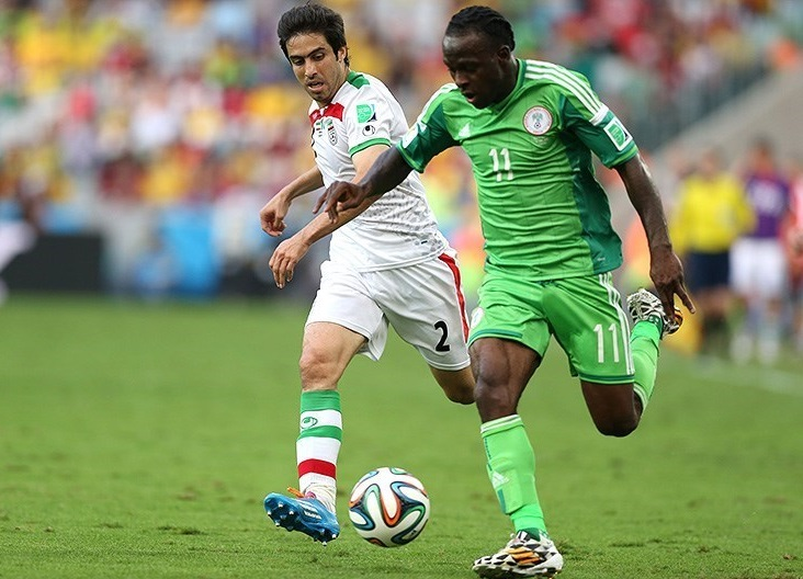 Iran and Nigeria match at the FIFA World Cup